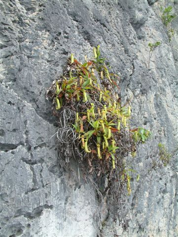 Unidentified Nepenthes from Raja Ampat, New Guinea (possibly Nepenthes neoguineensis or Nepenthes papuana)